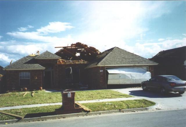 Damage left by an EF1 (Enhanced Fujita Scale level 1).